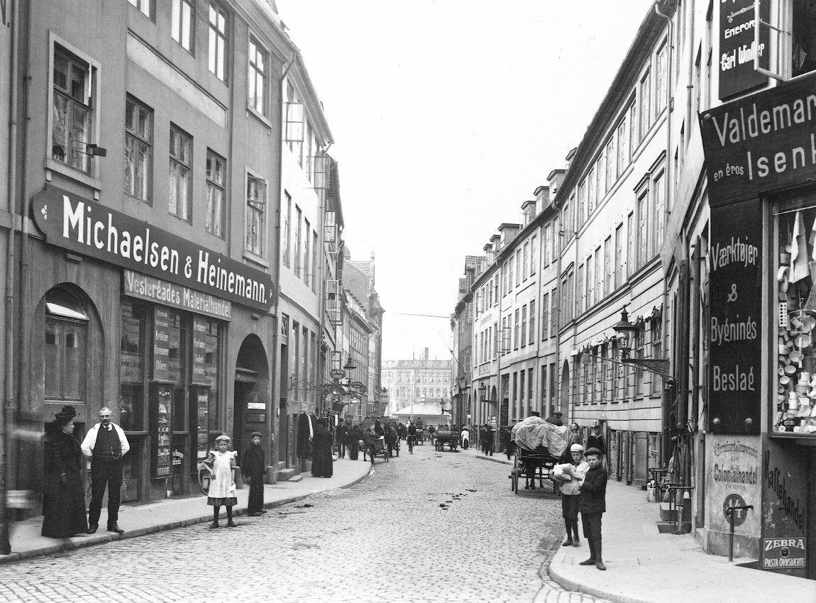 Vestergade in Copenhagen, Denmark